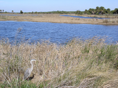 A Great Blue Heron (Ardea herodias) stands in marsh vegetation in the St. Marks National Wildlife Refuge in Wakulla County, Florida.